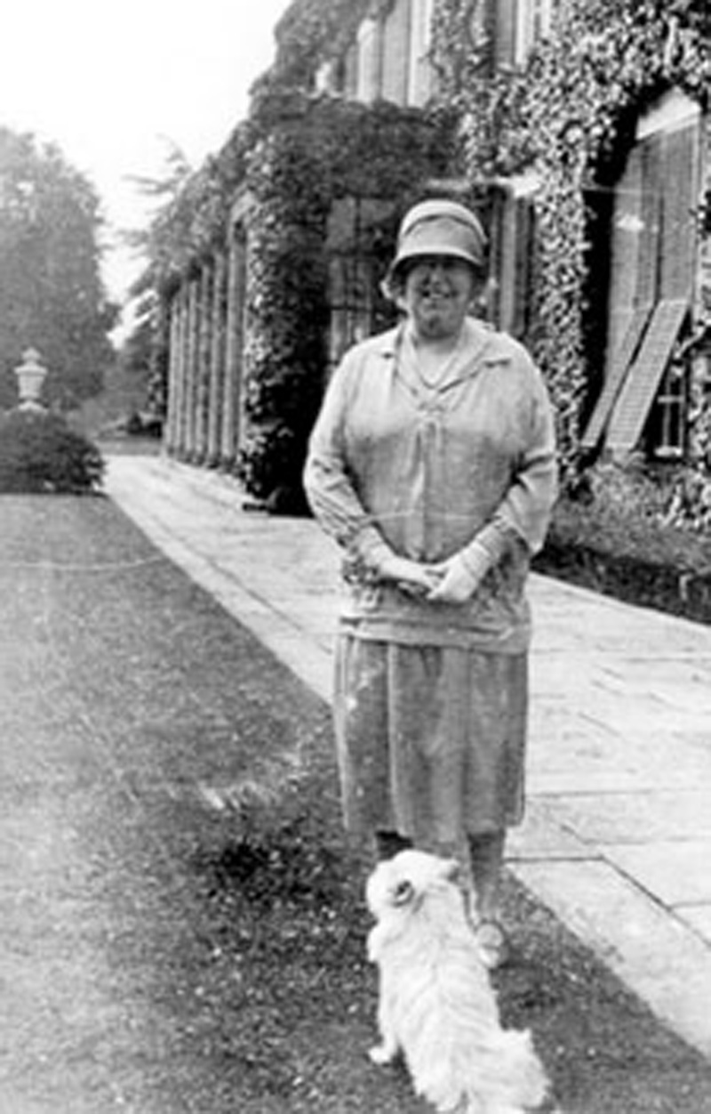 Margaret Greville, owner of Polesden Lacey circa 1920